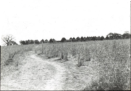 Photographic view of the town of Fashoda (Pachodo). 1910.